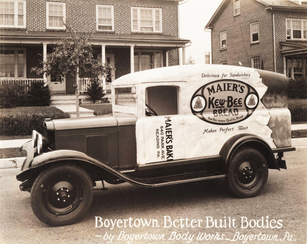 Maier's Kew-Bee Bread Truck by Boyertown Body Works. 1929 Chevrolet chassis.